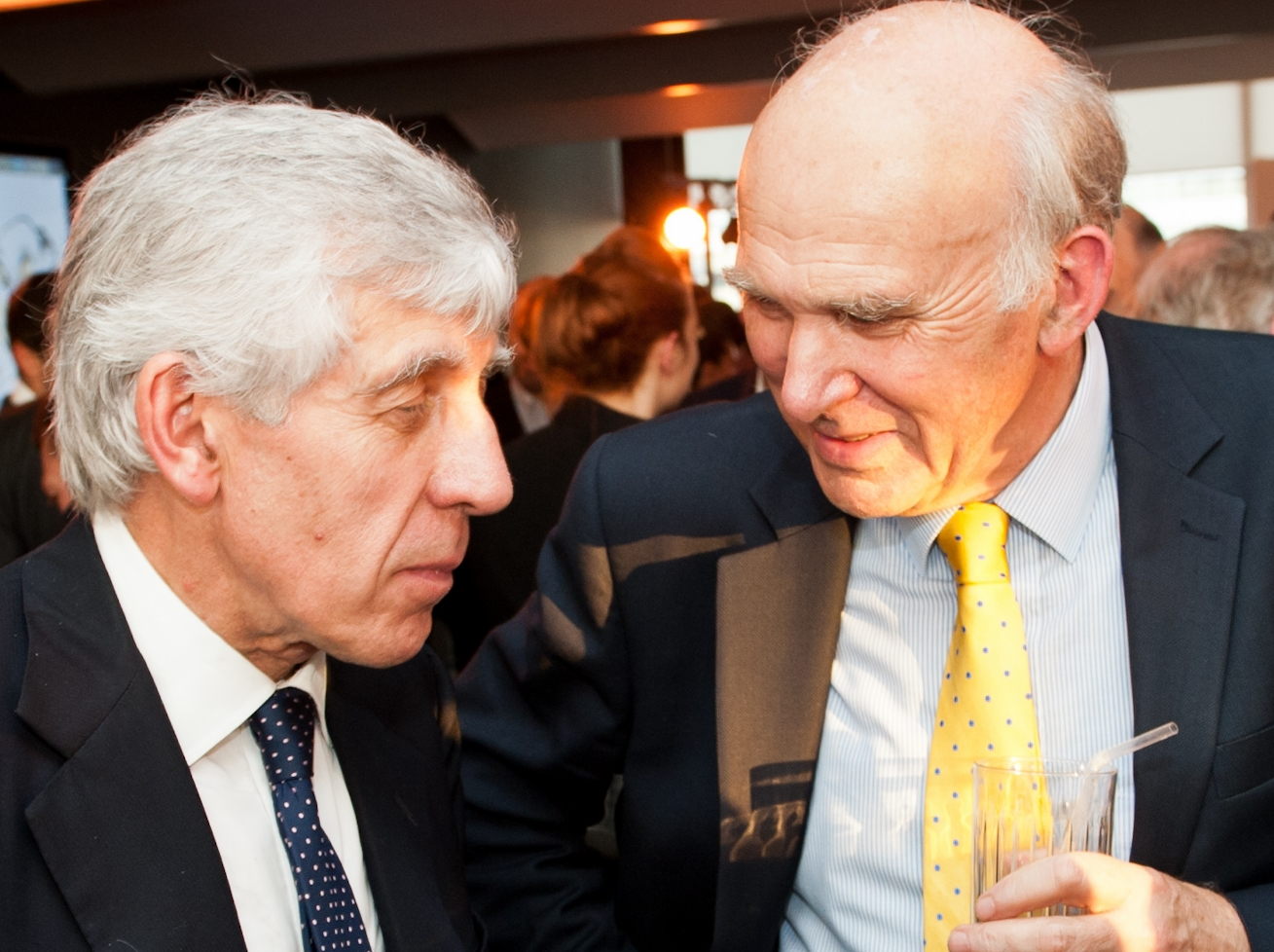 Jack Straw and Vince Cable